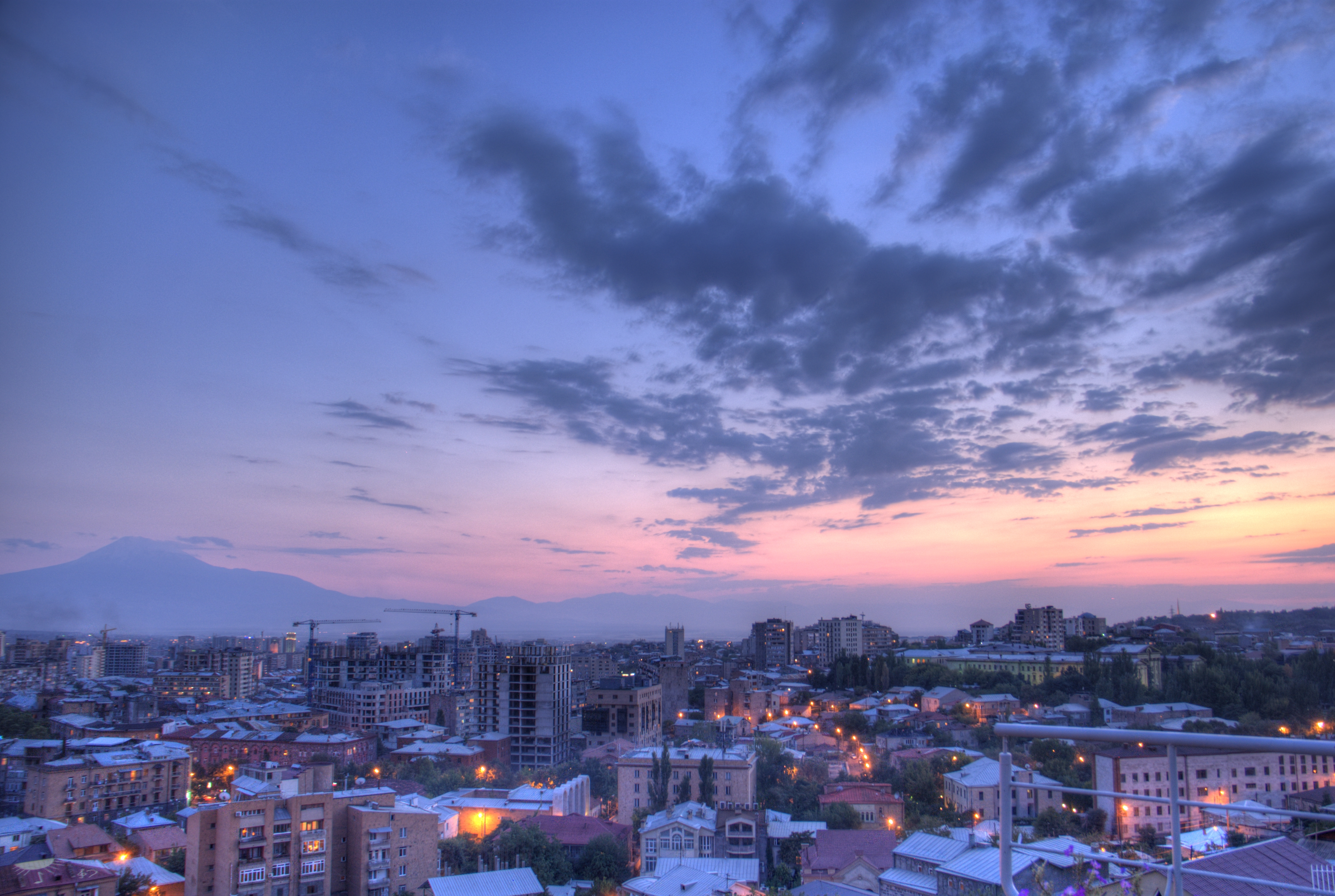 View on Yerevan, Armenia from the top of the Cascades